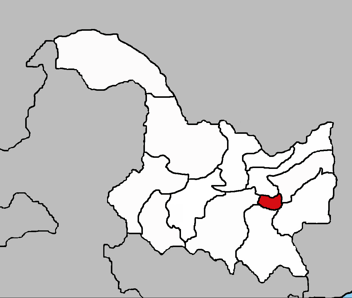 Map of Qitaihe Prefecture — Heilongjiang Province, China